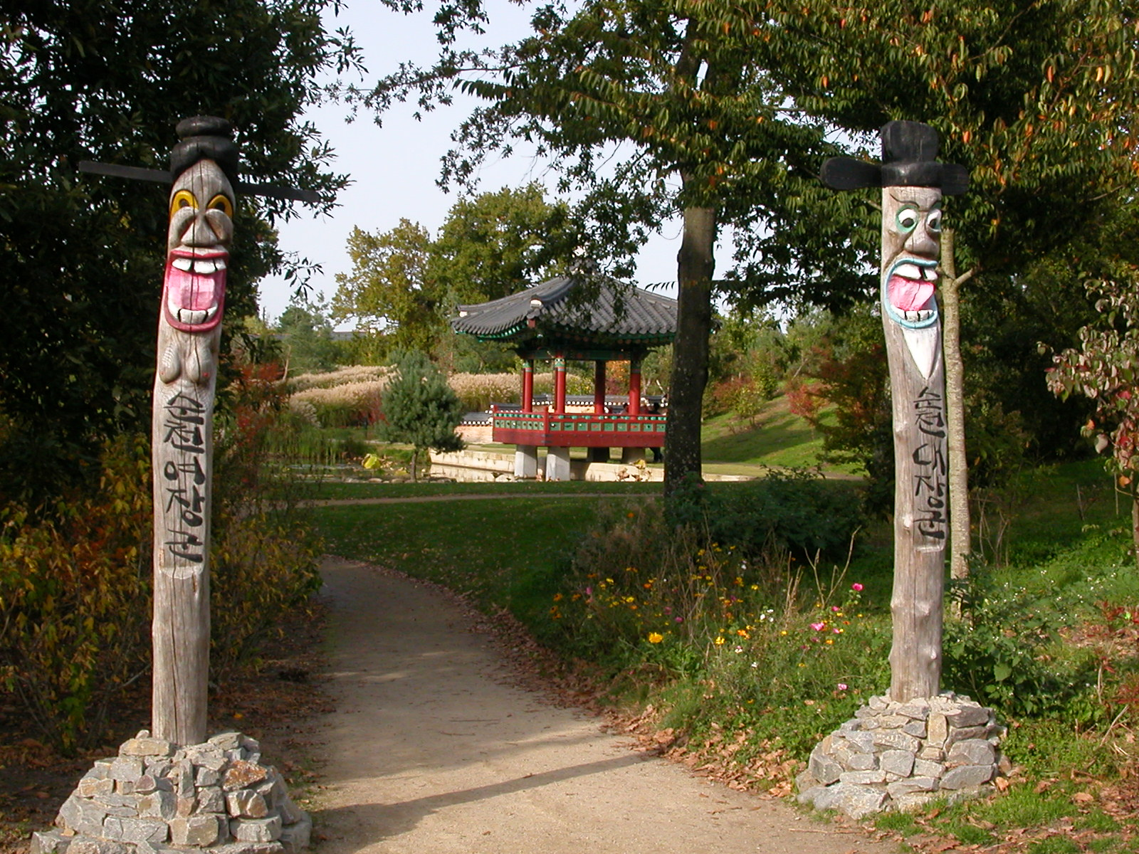 Korean pavilion and jangseungs in the « Colline de Suncheon », Grand-Blottereau park in Nantes